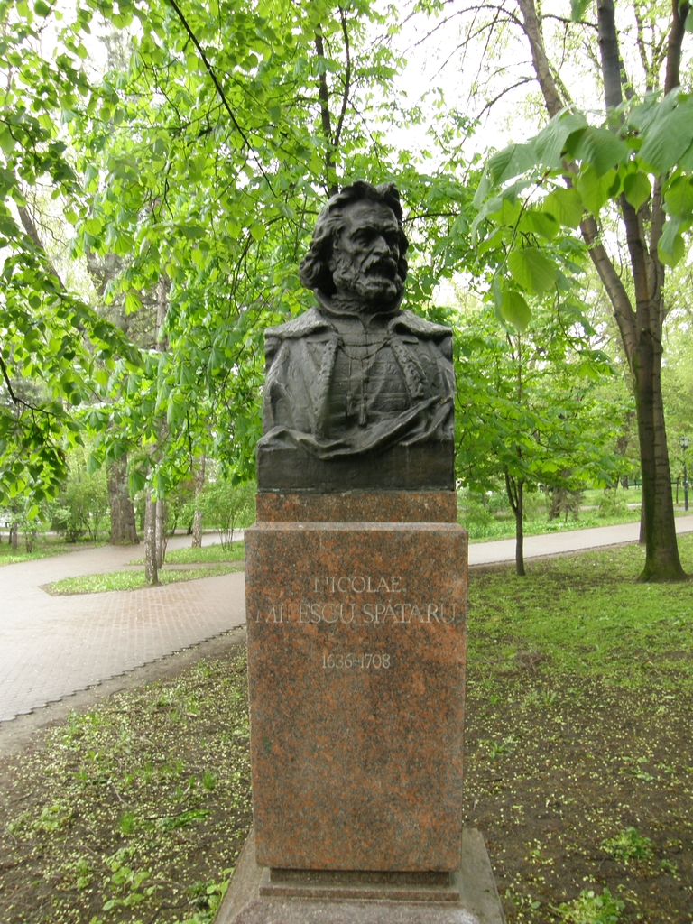 Nicolae Milescu Spătarul (1636-1708) The "Alley of the Classics"